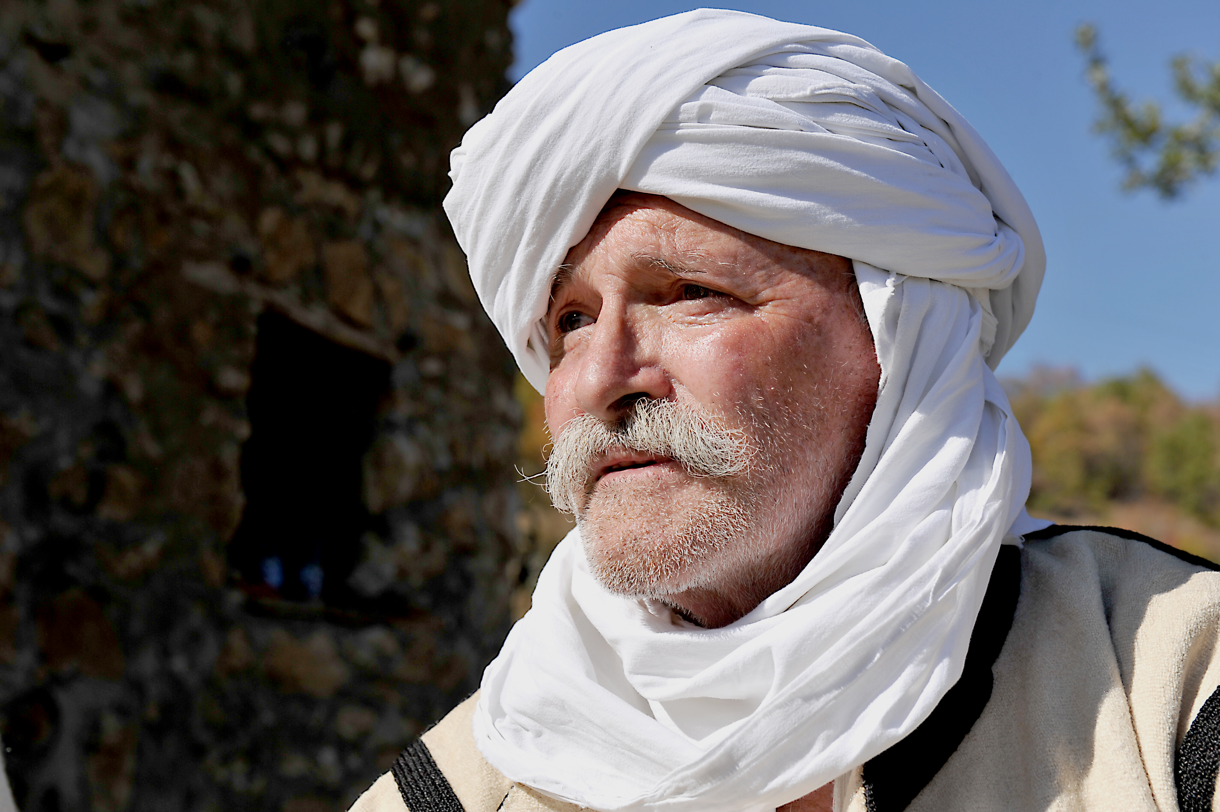 ALBANIADA sporte tradicionale shqiptare (4)